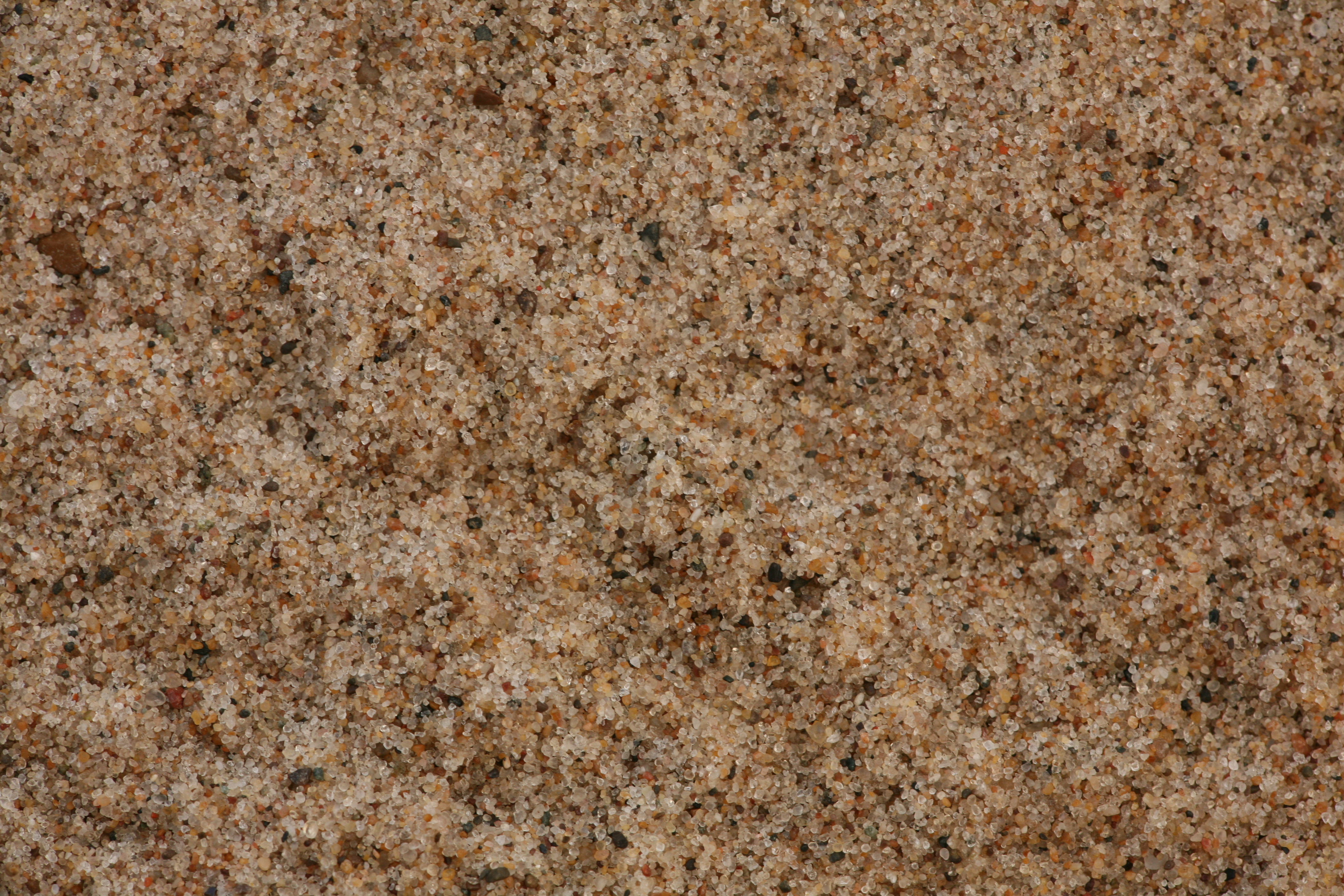 Sand on the beach of Lake Michigan near Michigan City, Indiana, USA